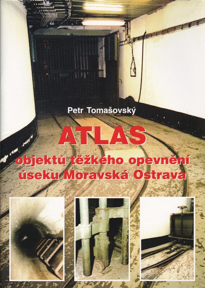 Atlas of the heavy fortifications of the Moravská Ostrava section.